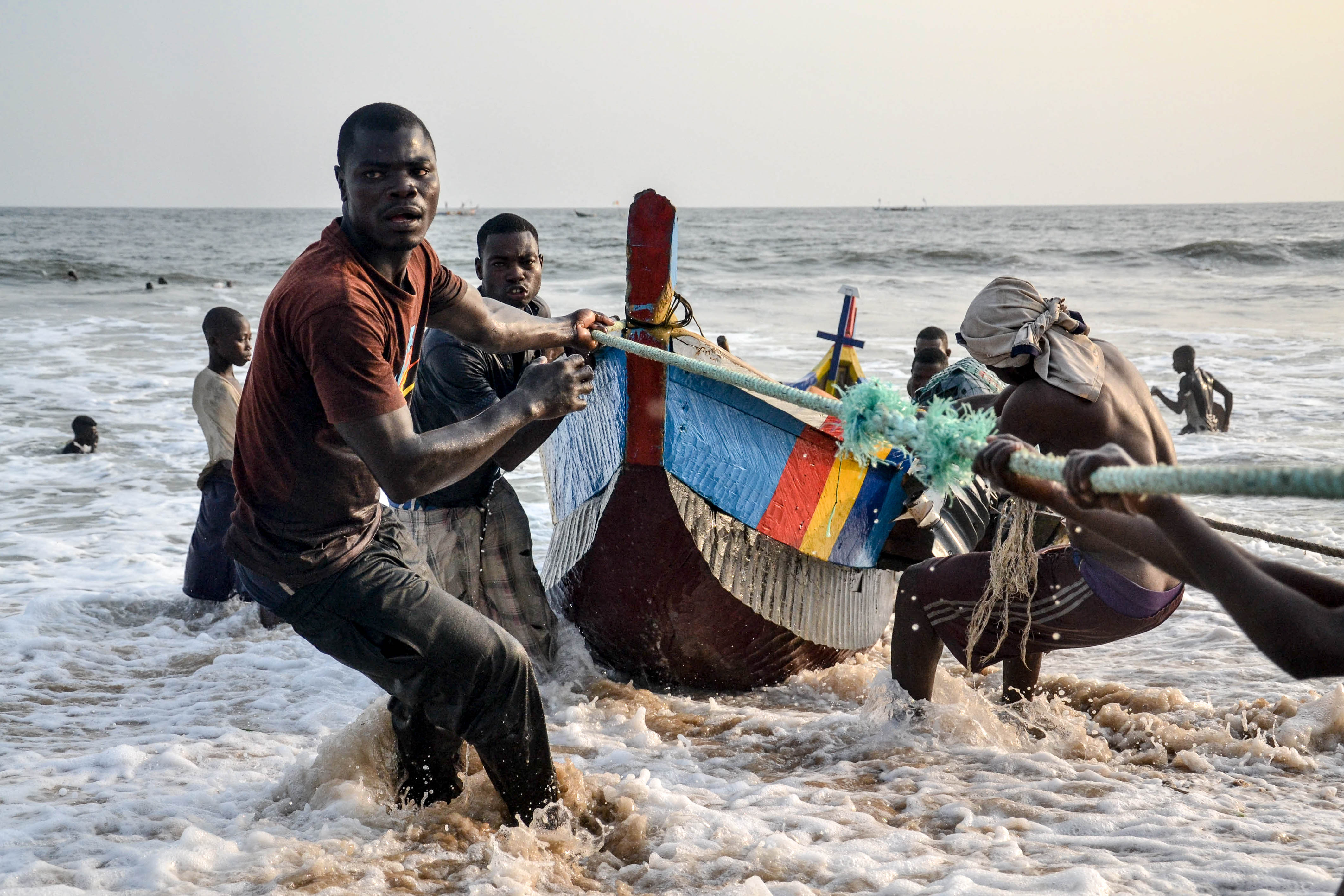 Des jeunes pêcheurs qui tirent leur pirogue sur la rive This is an image with the theme "Africa on the Move or Transport" from: Ivory Coast